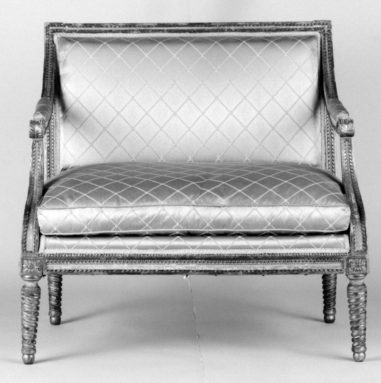 French, Paris; Settee; Woodwork-Furniture